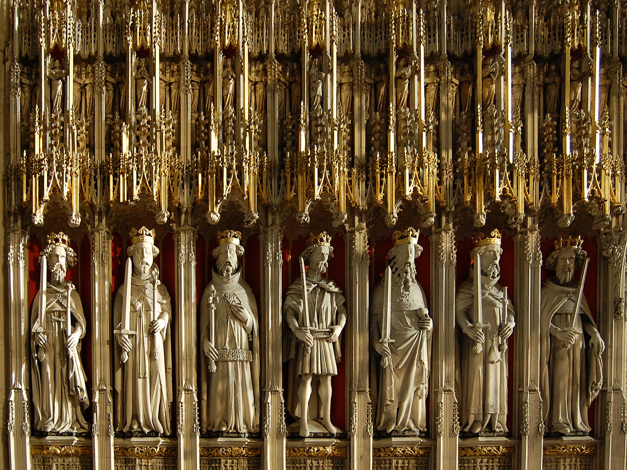 The choir screen in York Minster with the kings of England from Willam the Conqueror to Henry VI.